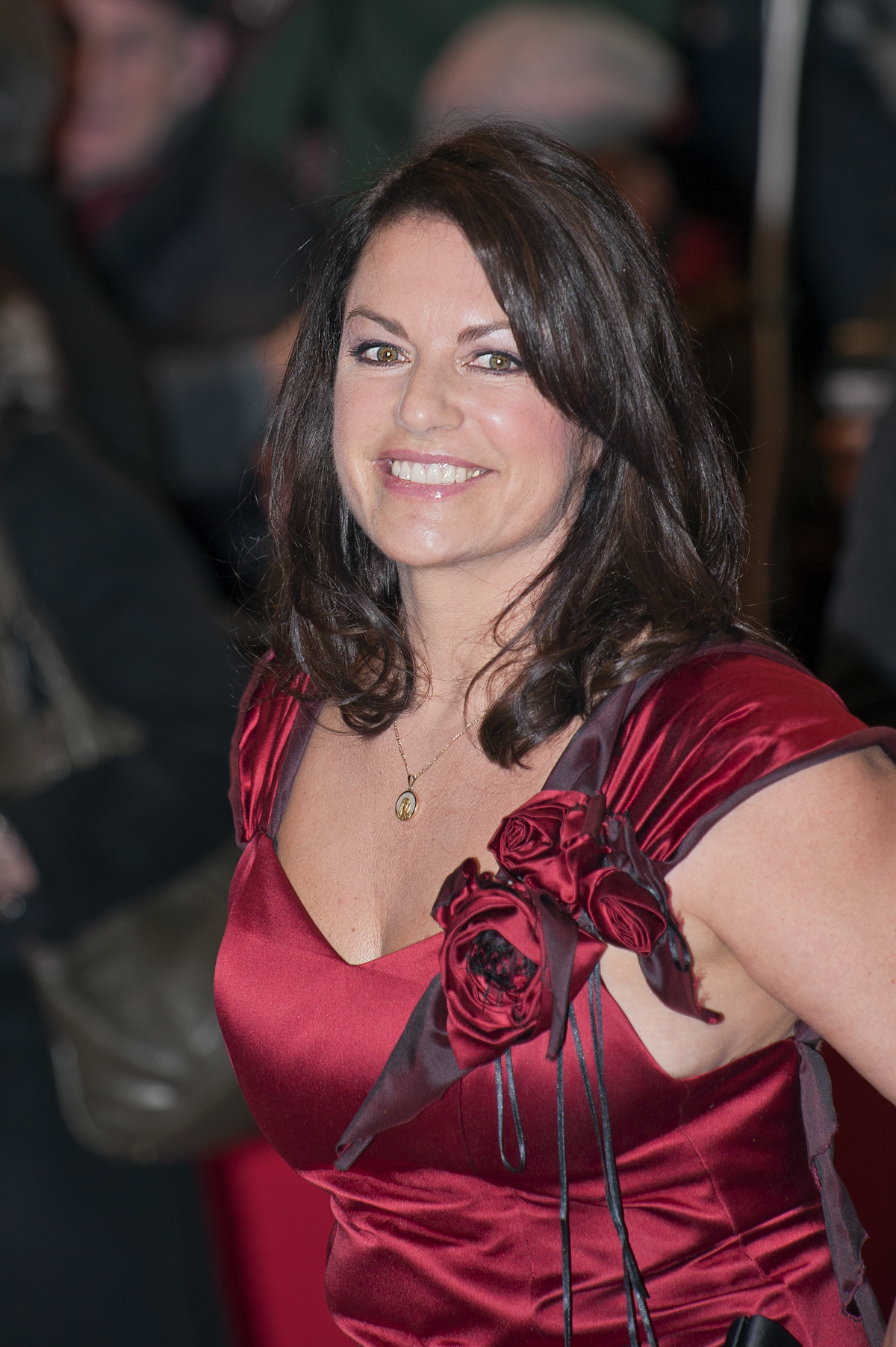 German actress Christine Neubauer arriving at the premiere of True Grit during the Berlin Film Festival 2011